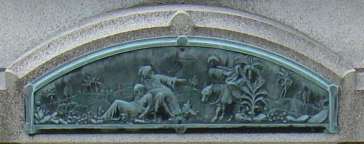 Detail view of the bas relief of the Good Samaritan on Governor Luke P. Blackburn's gravestone in Frankfort Cemetery in Frankfort, Kentucky. Blackburn was the 28th Governor of the Commonwealth of Kentucky, USA.